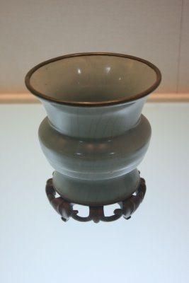 A Chinese Ming Dynasty (1368-1644 AD) porcelain vase from the reign of the Chenghua Emperor (1464-1487 AD).